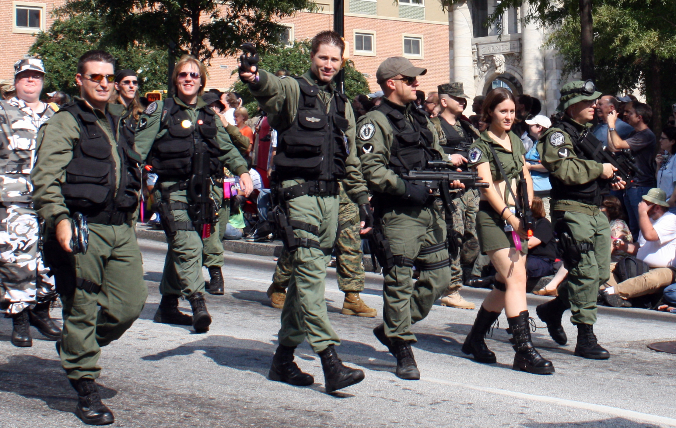 Fans at Dragon Con 2008 in SG uniforms (Stargate SG-1)